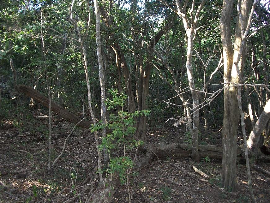 A view of Sand Forest at Nibela Peninsula, Lake St Lucia, KwaZulu-Natal, South Africa.